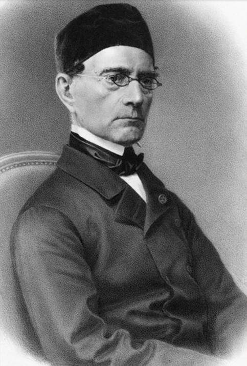 Gabriel Lamé, French mathematician. Portrait of XIX century.